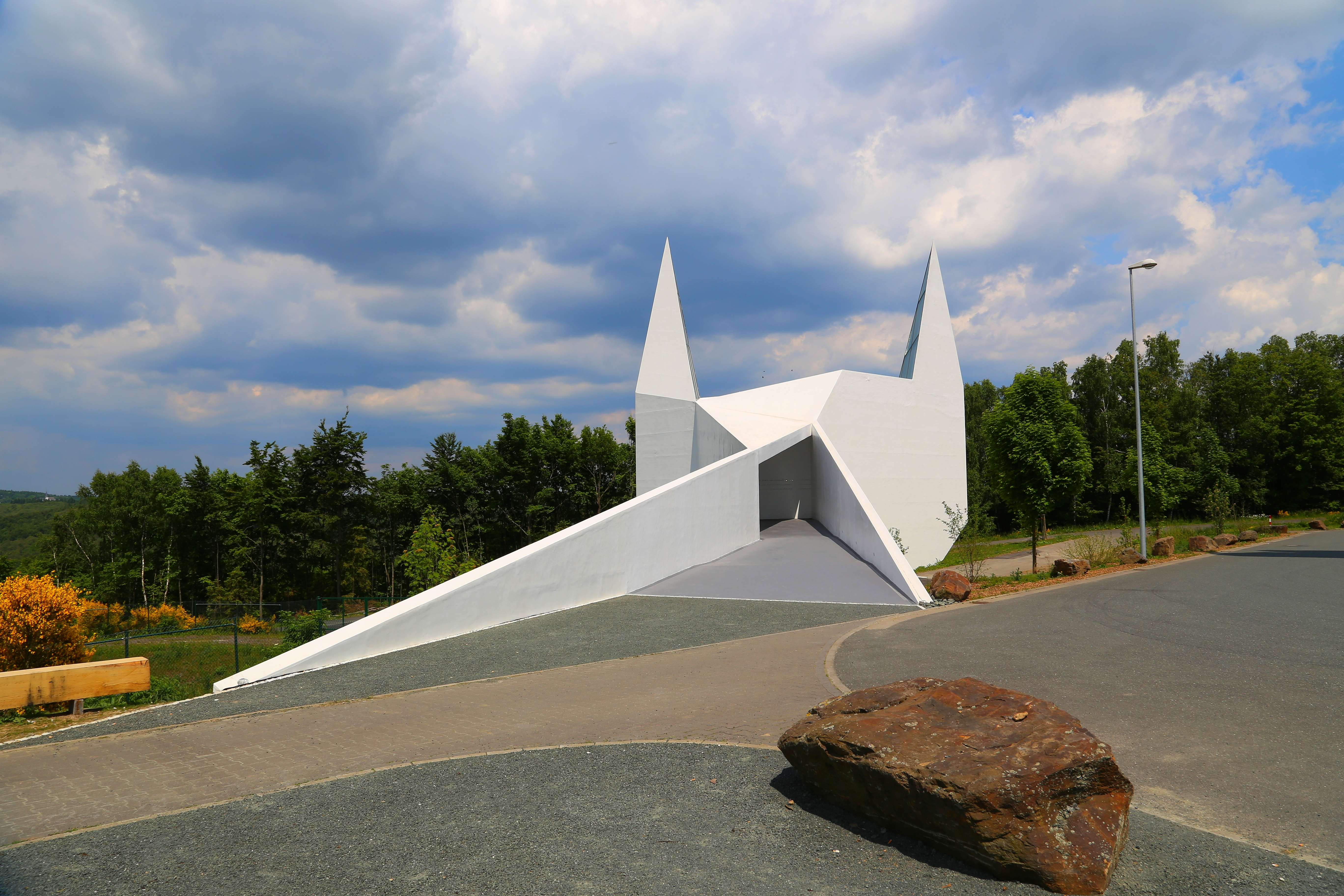 Autobahnkirche Siegerland in Wilnsdorf, Kreis Siegen-Wittgenstein, North Rhine-Westphalia, Germany.